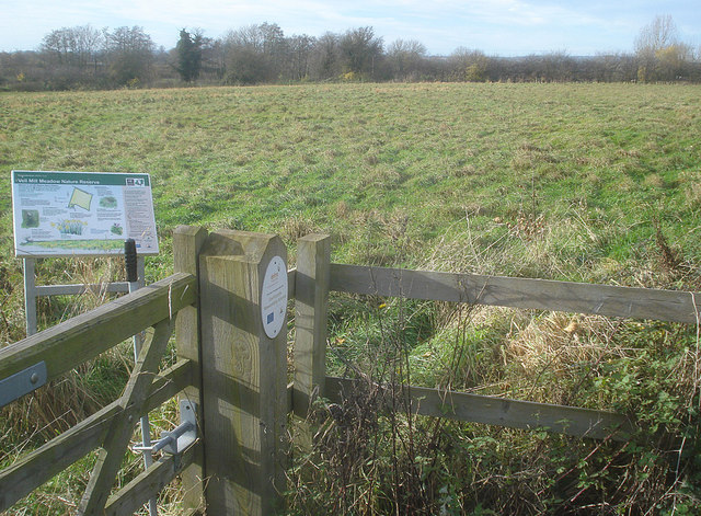 Vell Mill Meadow Nature Reserve Entrance gate on the south side of the lane. This small nature reserve is managed by the Gloucestershire Wildlife Trust. Come in the spring to see the wild daffodils and other meadow flowers.